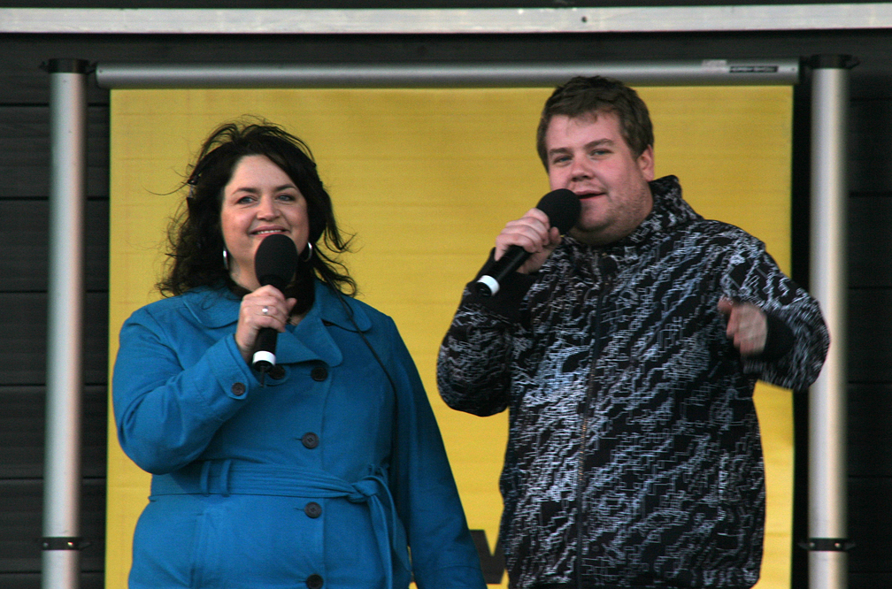 Ruth Jones and James Corden at a BBC Radio Wales roadshow.